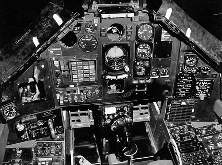 Lockheed F-117A cockpit